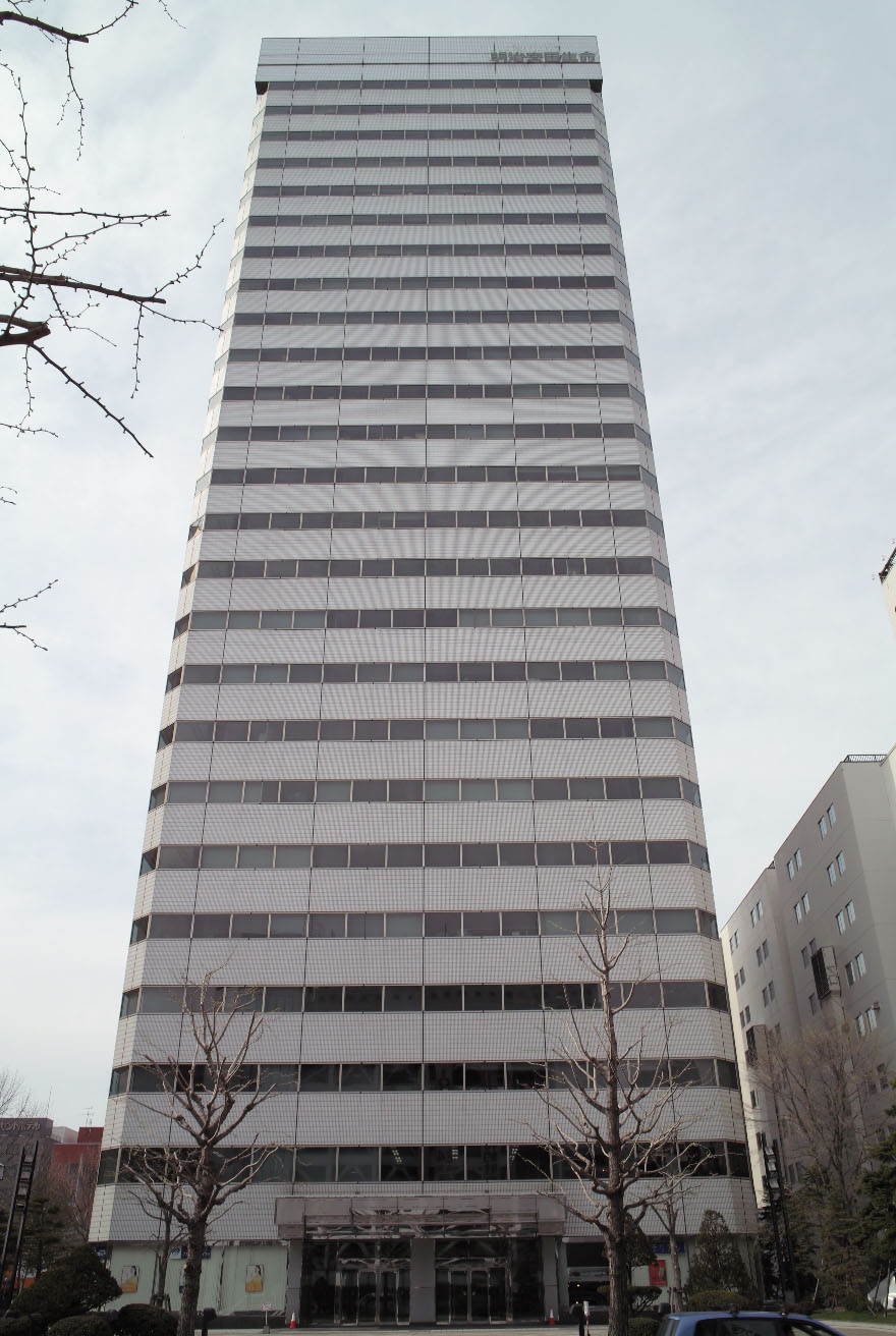 Sapporo Center Building, Hokkaido, Japan. It hosts the Consulate of Australia.